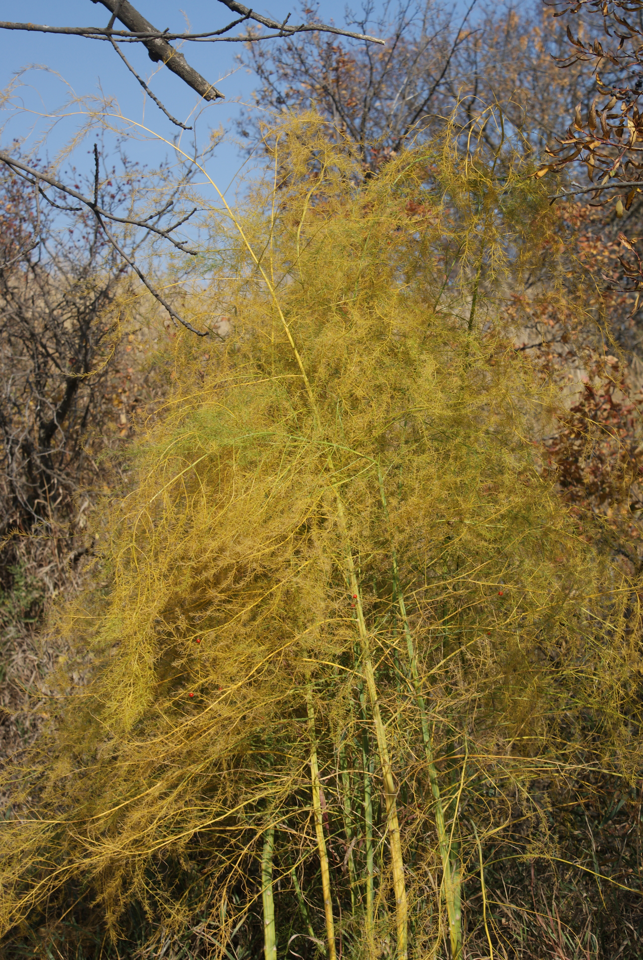 Mature Asparagus (Asparagus Officinalis) Mature plant each fruit will contain 3 -4 seeds. Saskatchewan delicate fern like plant about 3 to 3.5 feet high near South Saskatchewan river near Happyland